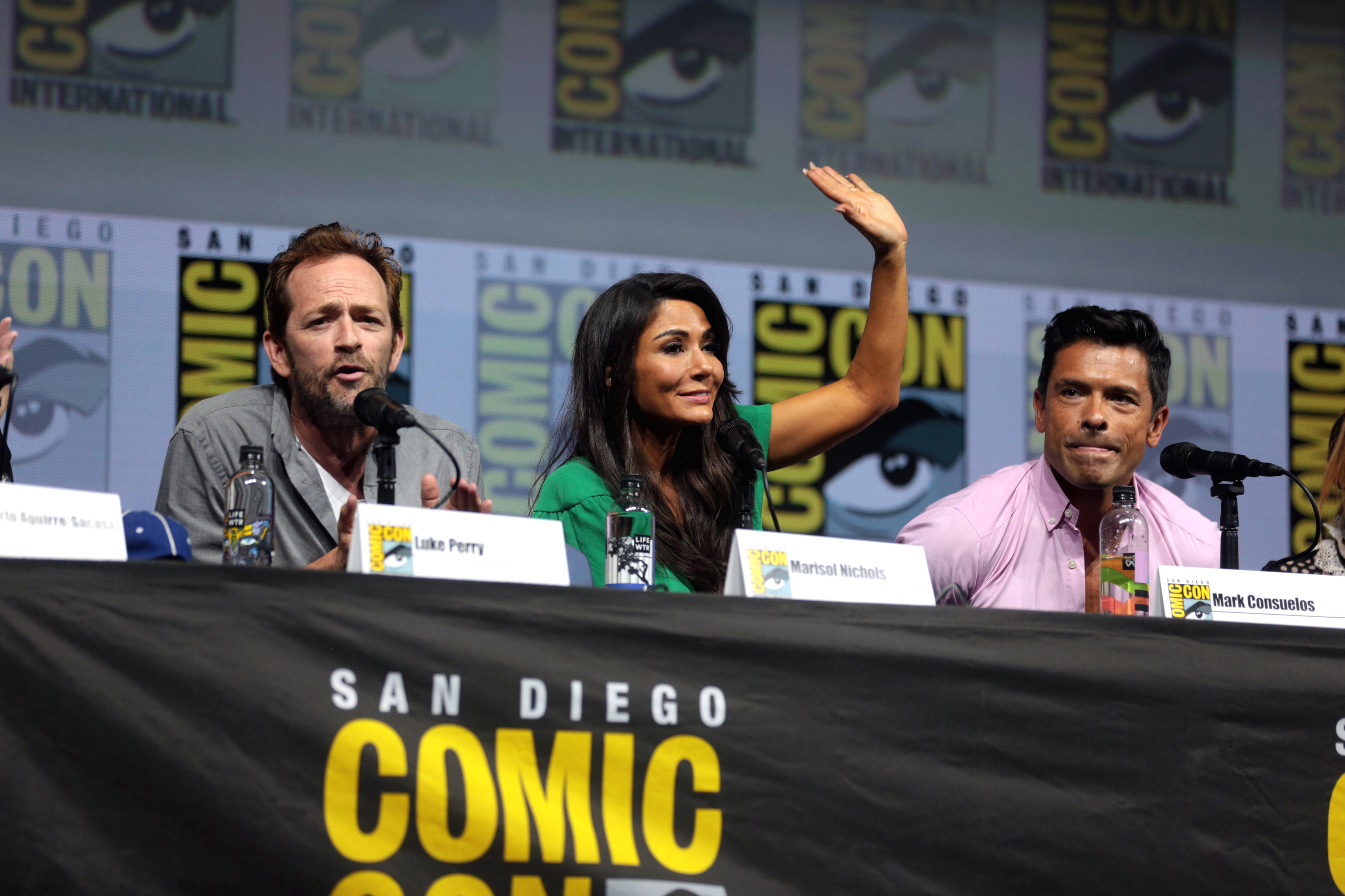 Luke Perry, Marisol Nichols and Mark Consuelos speaking at the 2018 San Diego Comic Con International, for "Riverdale", at the San Diego Convention Center in San Diego, California.